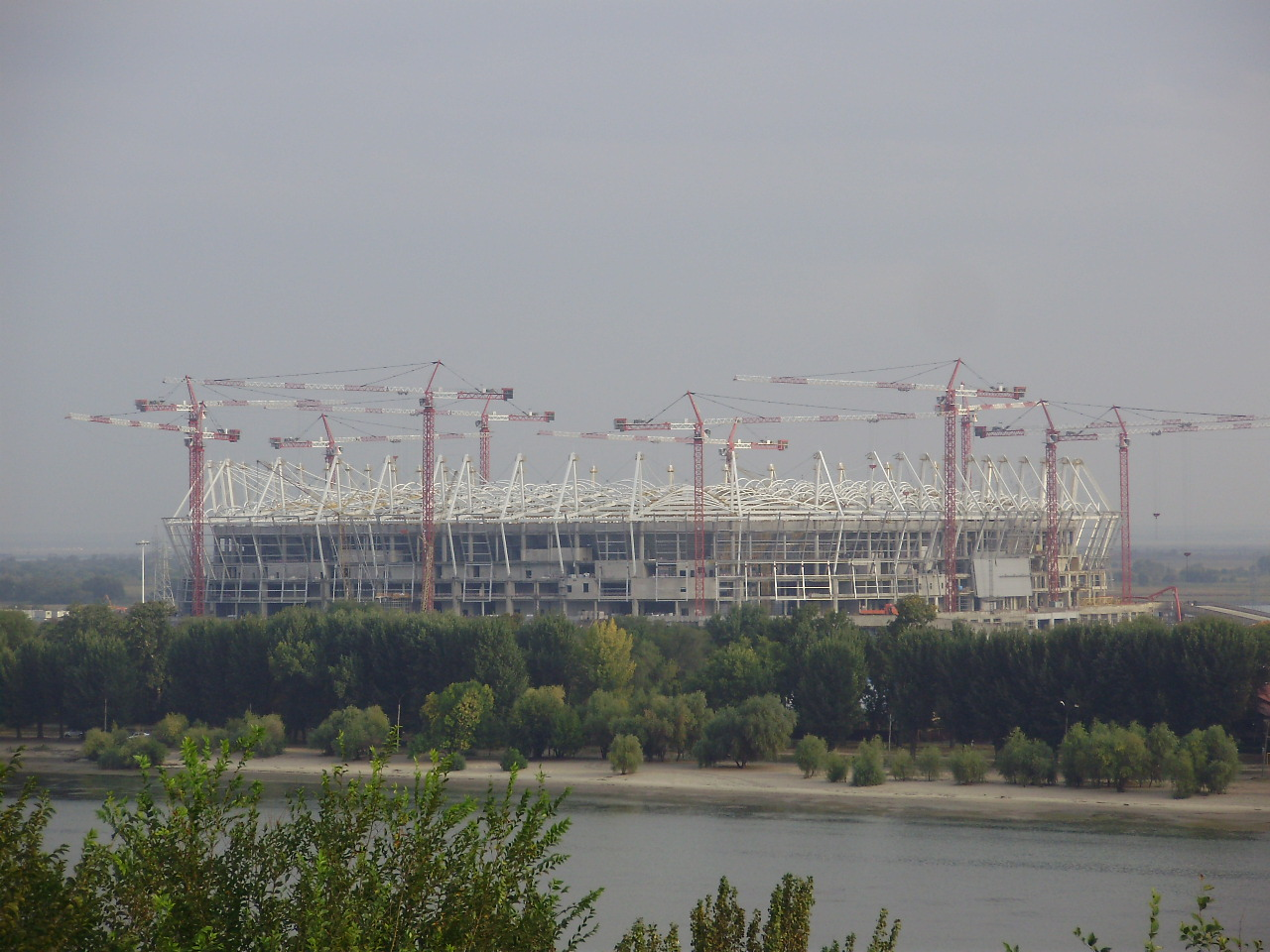 The construction of the stadium "Rostov arena"